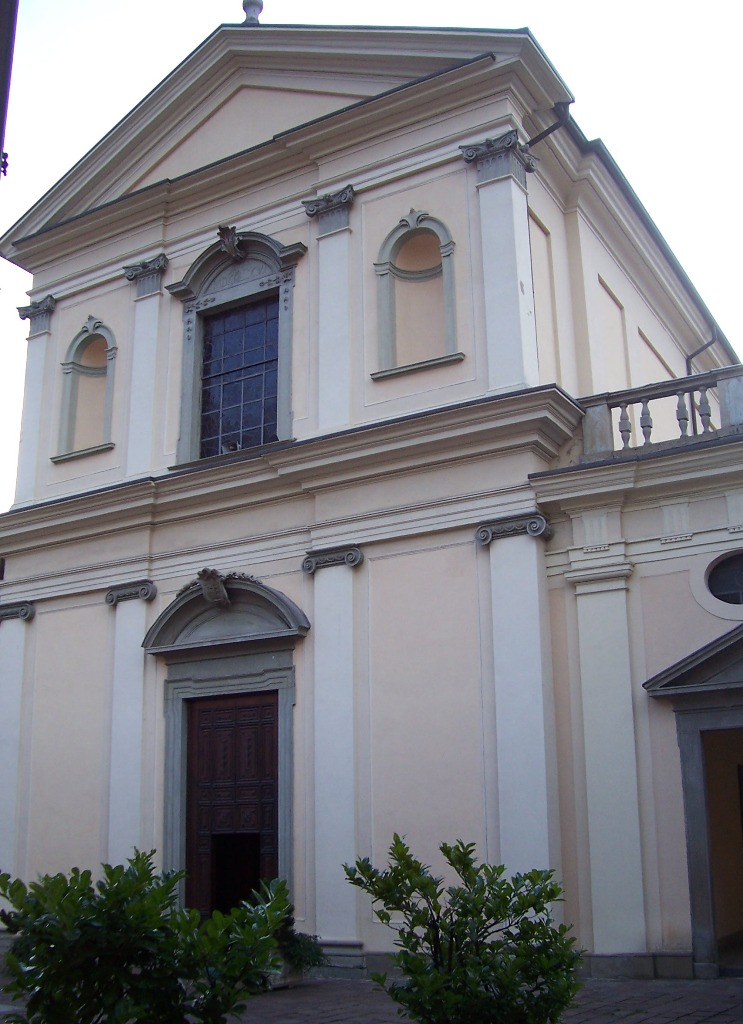 Parich church of st Martin. Capo di Ponte, Val Camonica